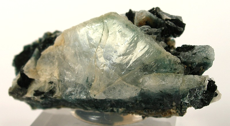 Whitlockite Locality: Big Fish River, Dawson Mining District, Yukon Territory, Canada (Locality at ) Size: miniature, 3.6 x 1.8 x 1.6 cm Whitlockite This specimen features a perfect, upstanding, HUGE crystal of whitlockite measuring 2.5 cm across and 1.5 cm tall! The crystal is translucent to transparent, and has in person a very good pearlescent lustre and better gemminess than it appears in the photos. This is a spectacular specimen for the species, really redefining the size you can expect for such a crystal. As well, its a fine display miniature. This is one of the choice top specimens found by Rod Tyson at a "private location" in 2005. Note that it is NOT from Rapid Creek.